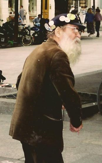 Aguigui Mouna, french anarchist and street entertainer.